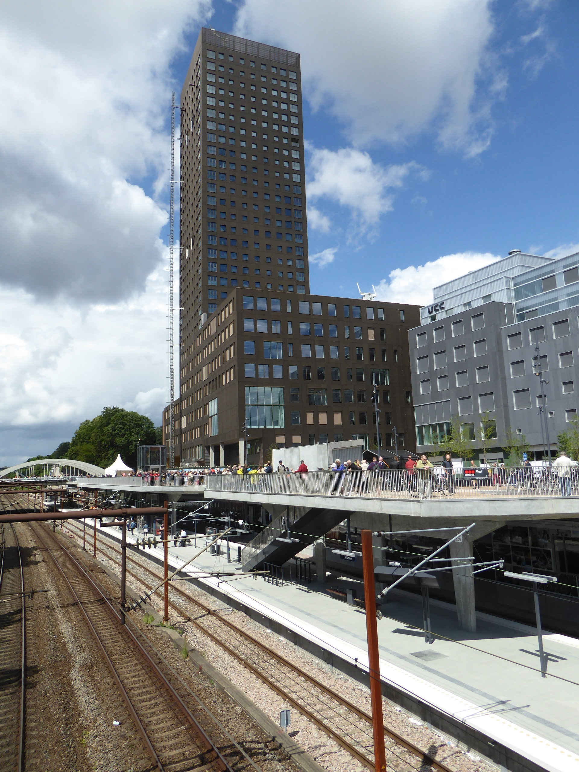 The opening of the S-train station Carlsberg Station in Copenhagen. The station right before the opening. In the background the high-rise Bohrs Tårn.